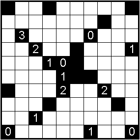 A sample puzzle of Light Up. It has a unique solution.